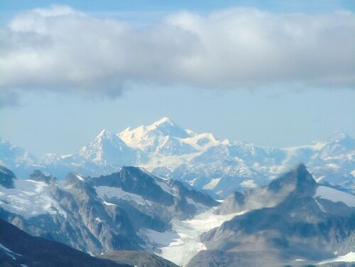 Mount Fairweather taken from Glacier Bay by myself, September 2004